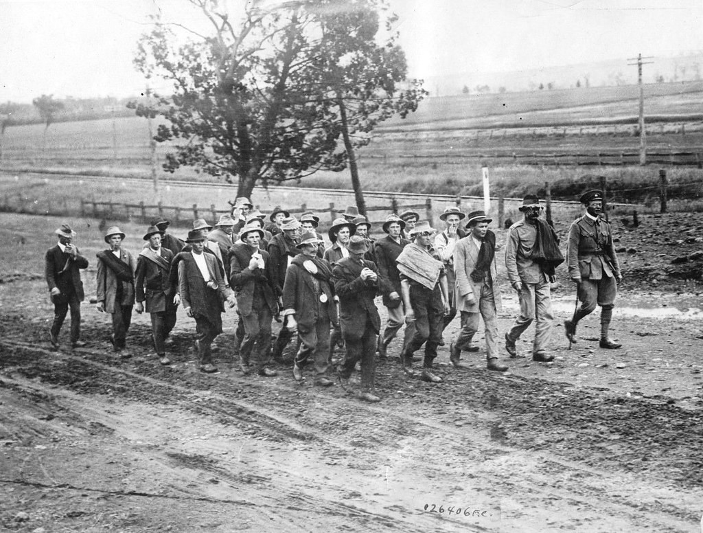 Cooee marchers from Gilgandra, World War I recruiting march the first of the WW1 Snowball marches